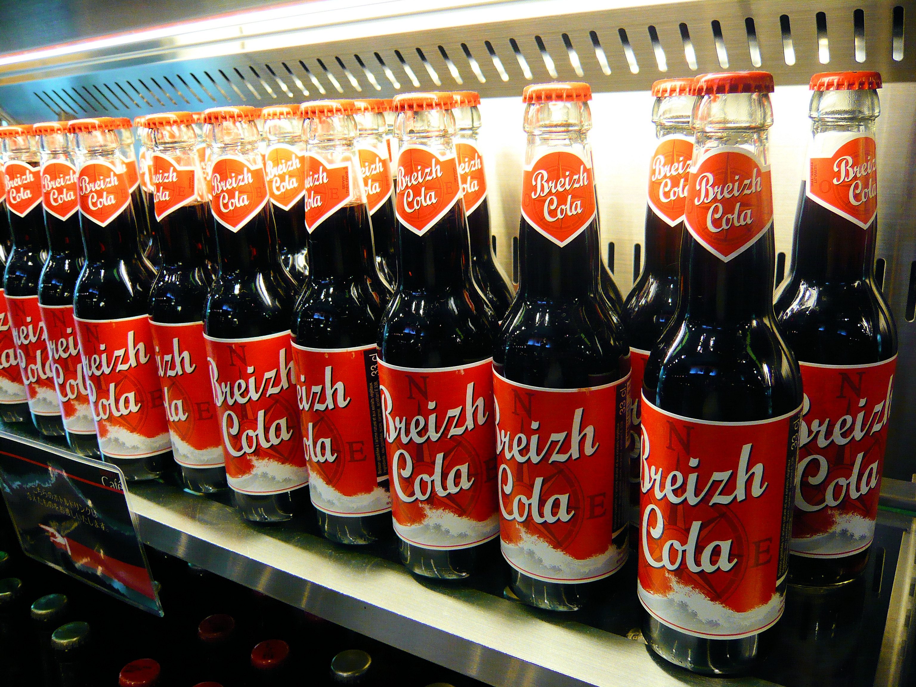 Breizh Cola is a Cola manufactured and sold in Brittany, in France. It's a relatively confidential product, not very famous outside Brittany. Therefore I was very surprised to find some in Yokohama, Japan.